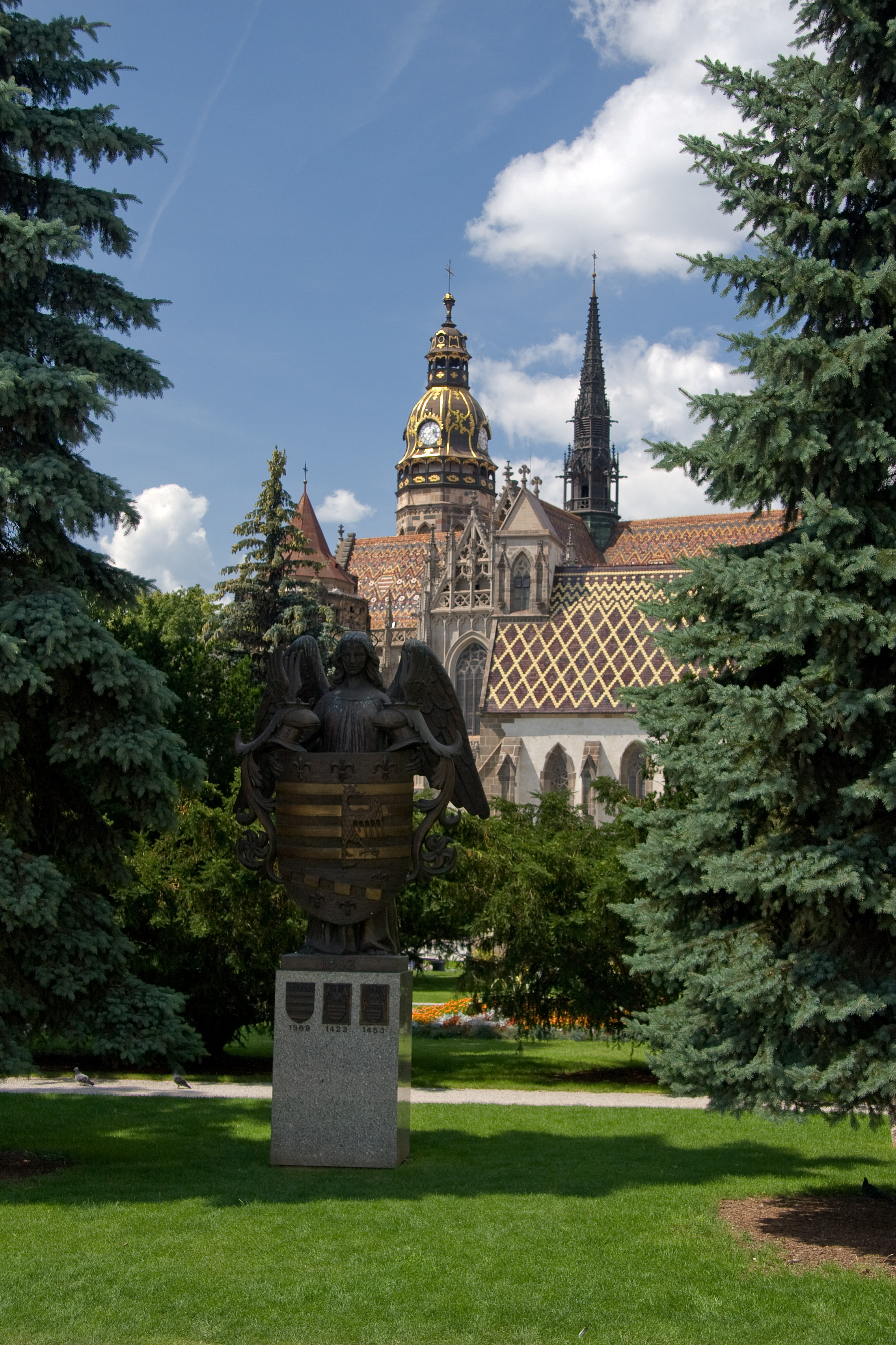 Coat of Arms Statue on Main Street, Košice, Slovakia